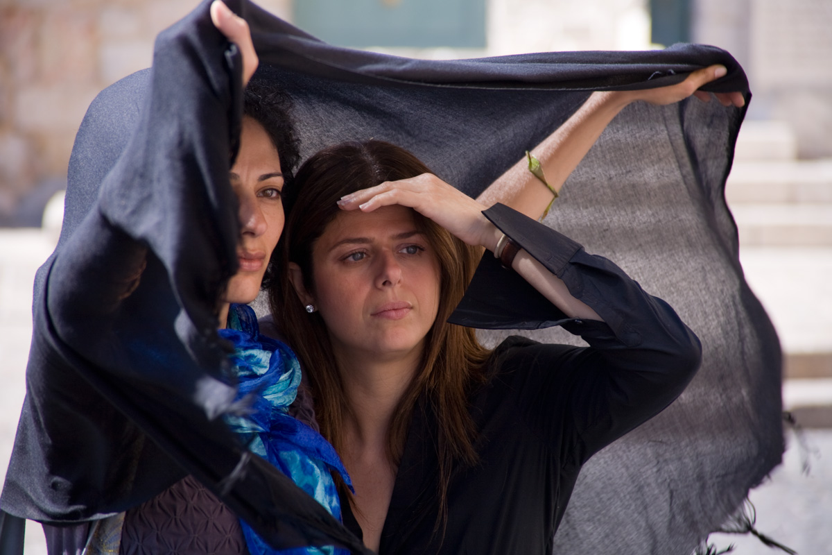 Suheir Hammad & Nathalie Handal denied entry to al-Haram al-Sharif.